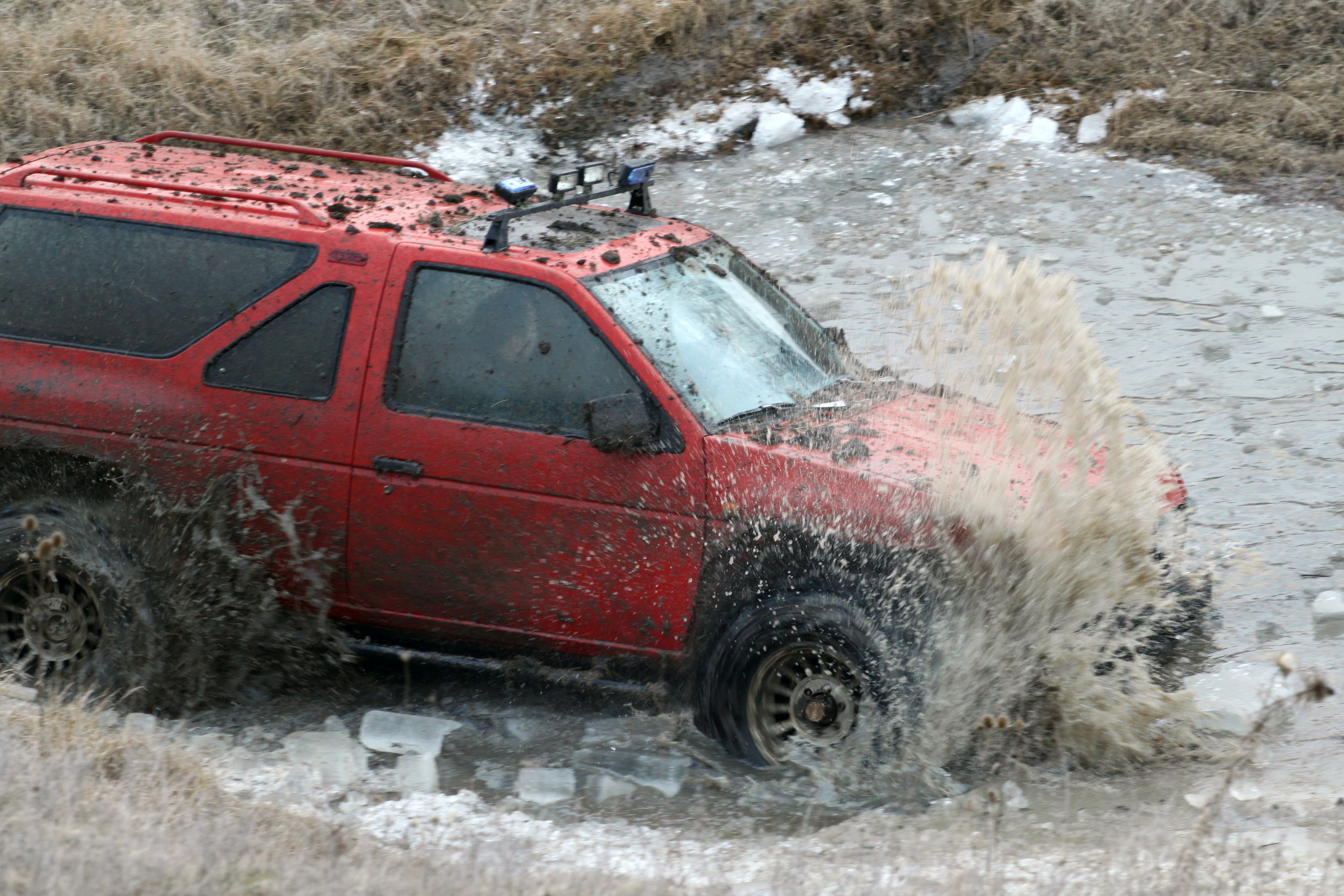 Off-roading near Slivnitsa, Bulgaria